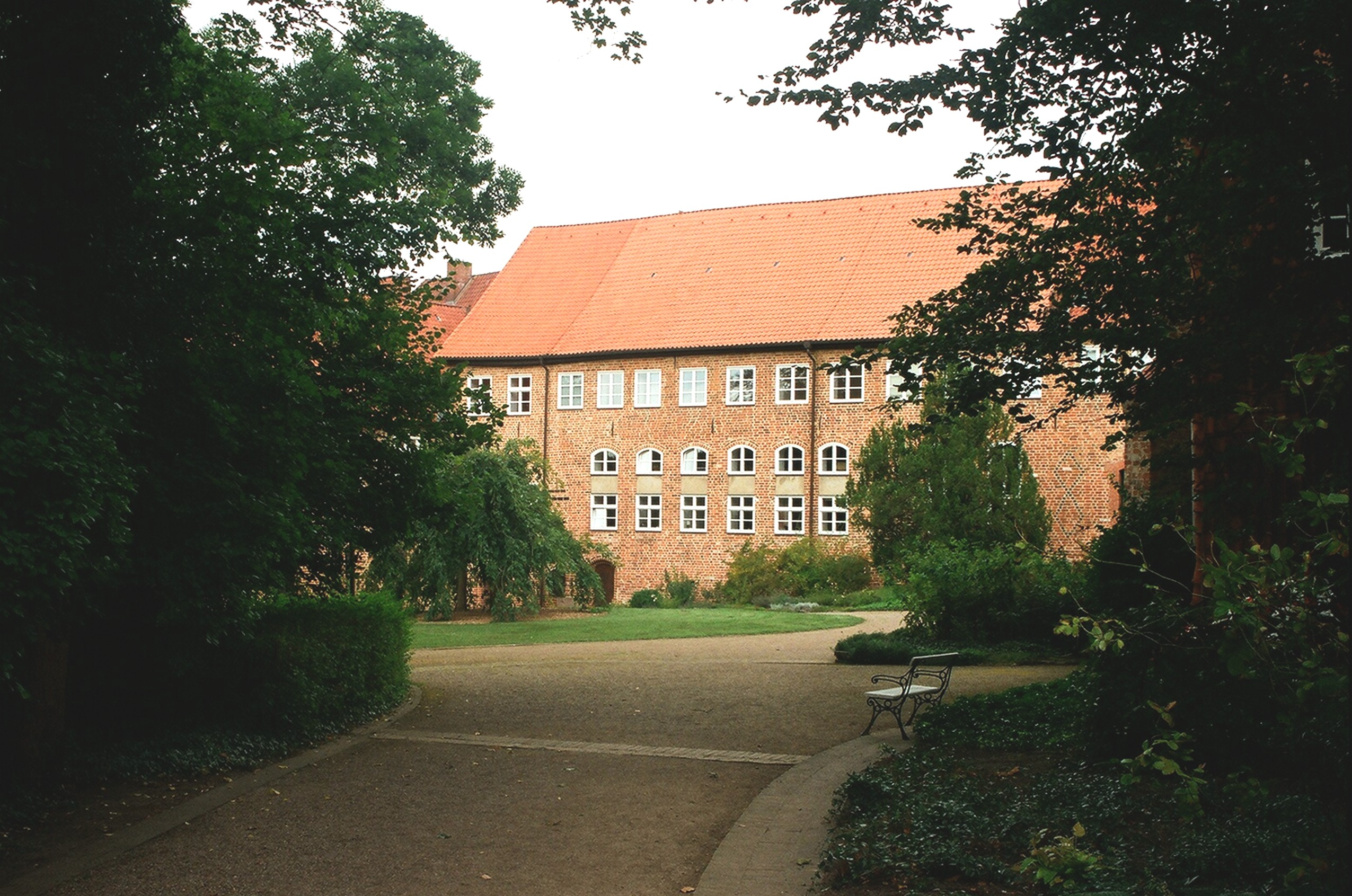 Ebstorf, the abbey